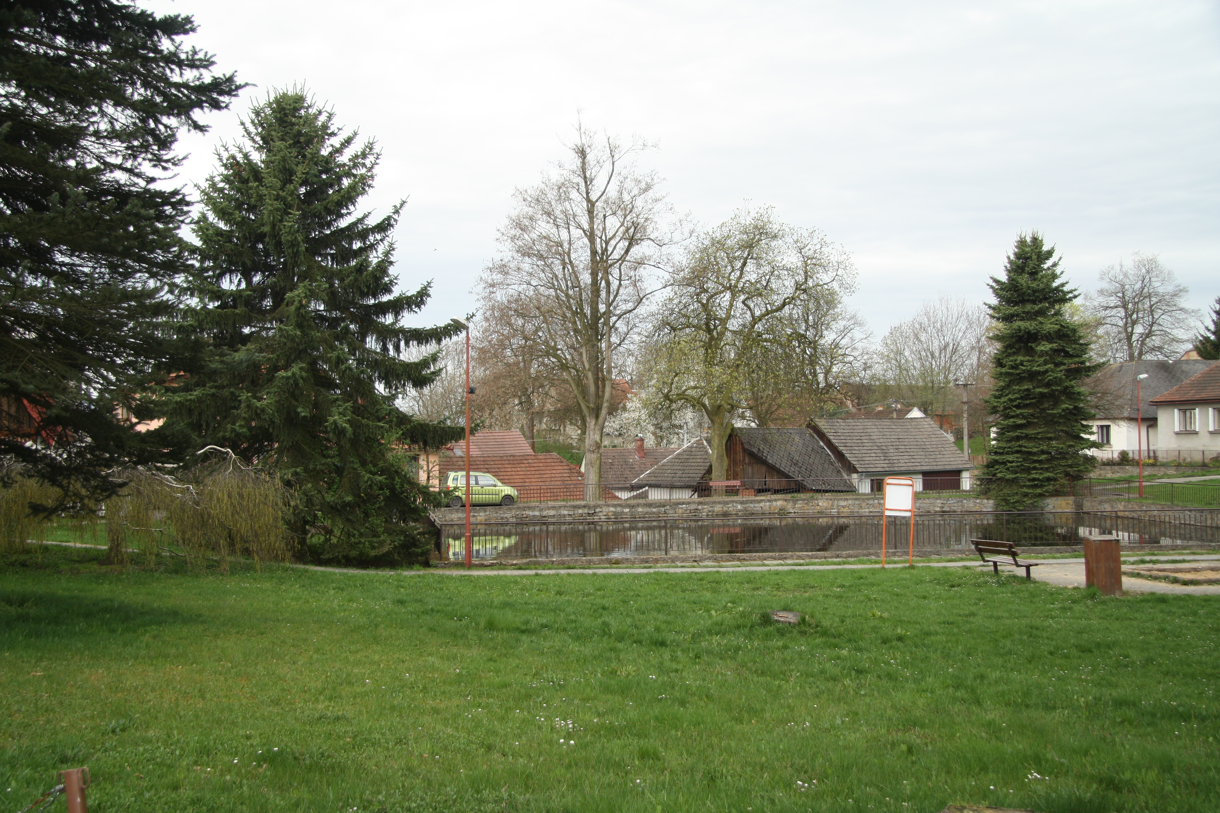 Center of Kamenička, Kamenice, Jihlava District.